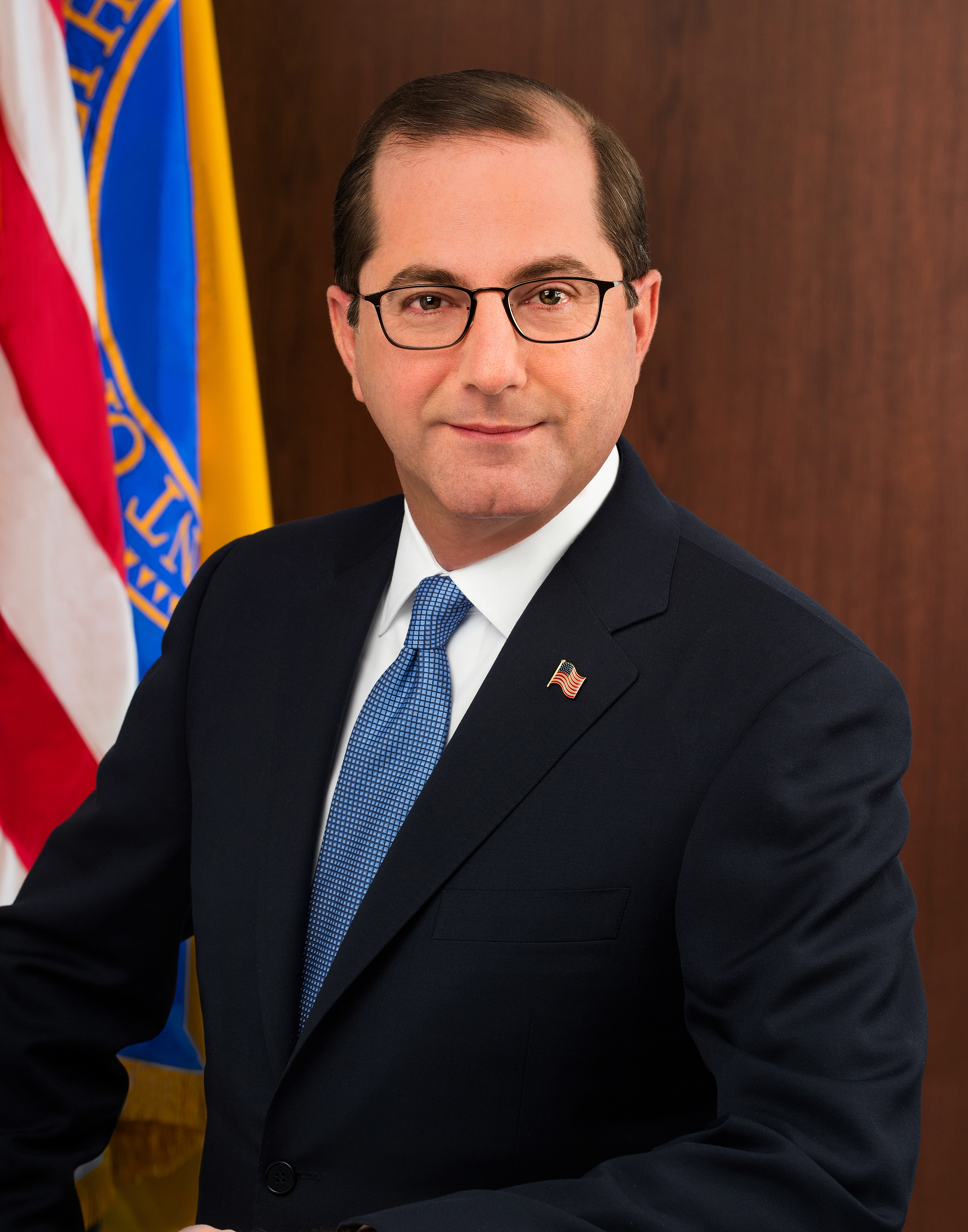 United States Secretary of Health and Human Services, Alex M. Azar II